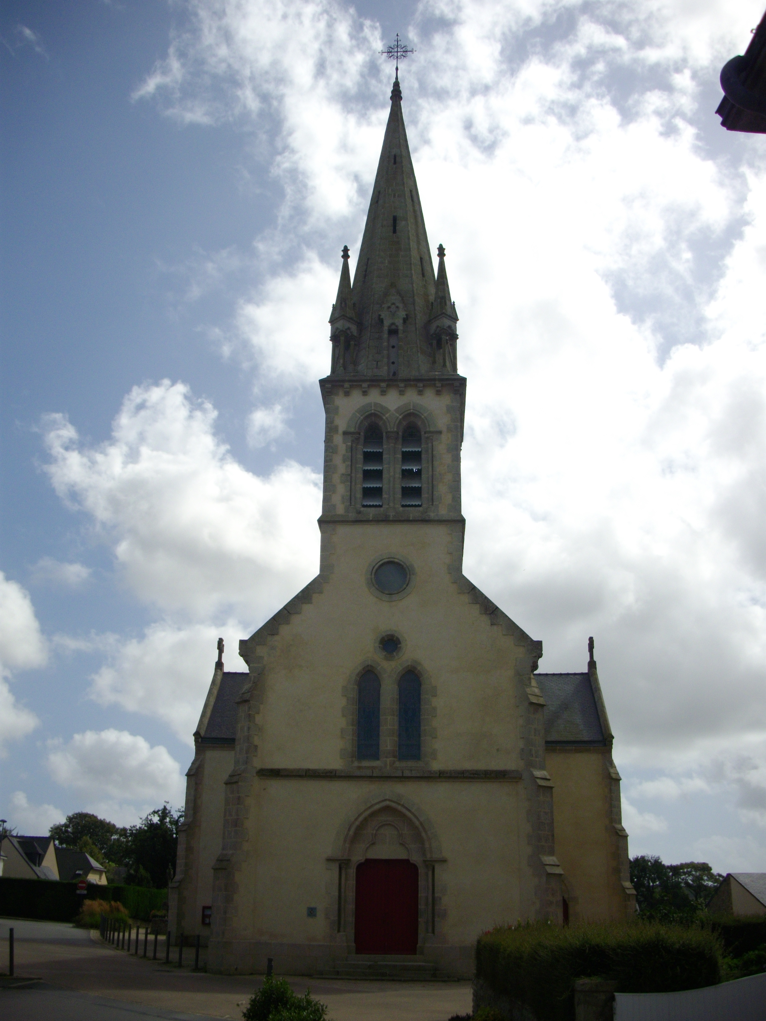 Front of the the church of Locqueltas (Morbihan, France)